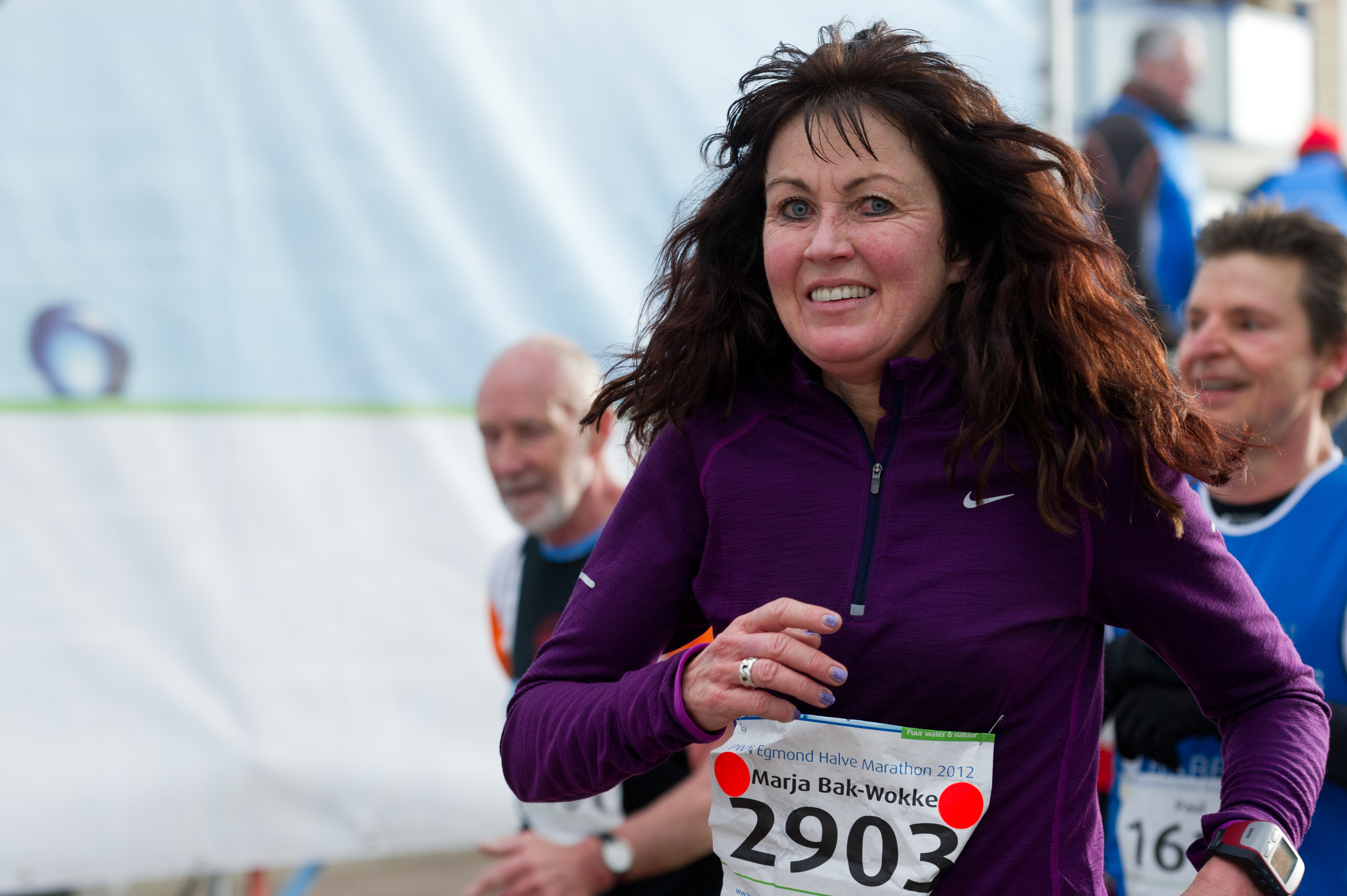 Female athlete